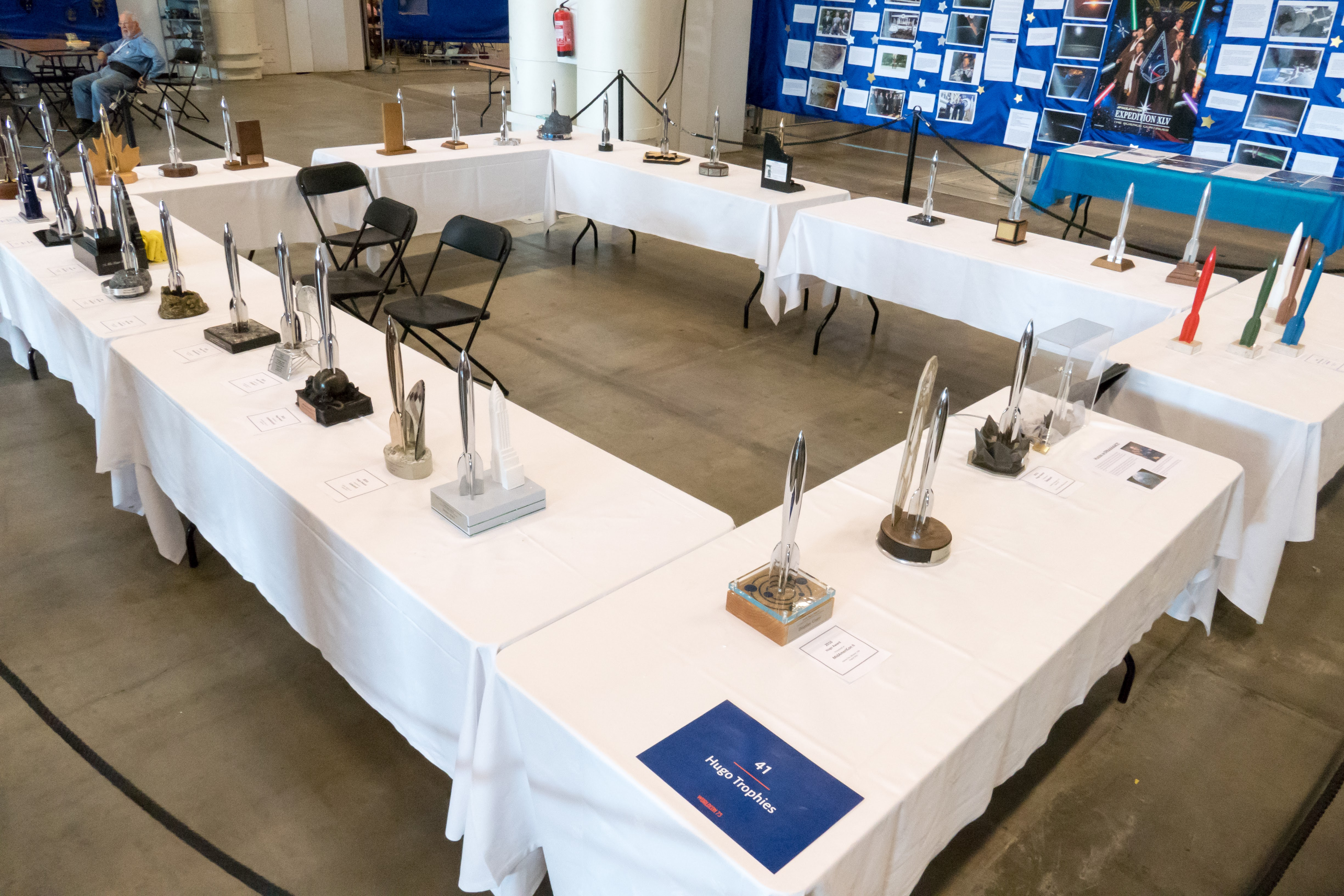 World Science Fiction Convention in Helsinki, 2017. Hugo Award exhibition